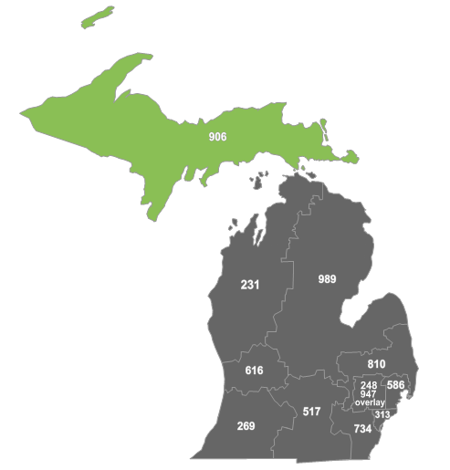 Area code map of Michigan highlighting the region covered by area code 906.